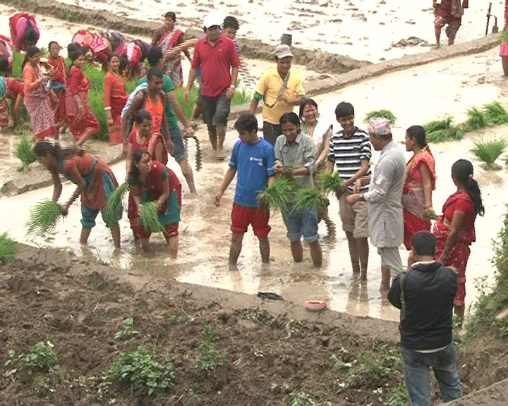 Farming